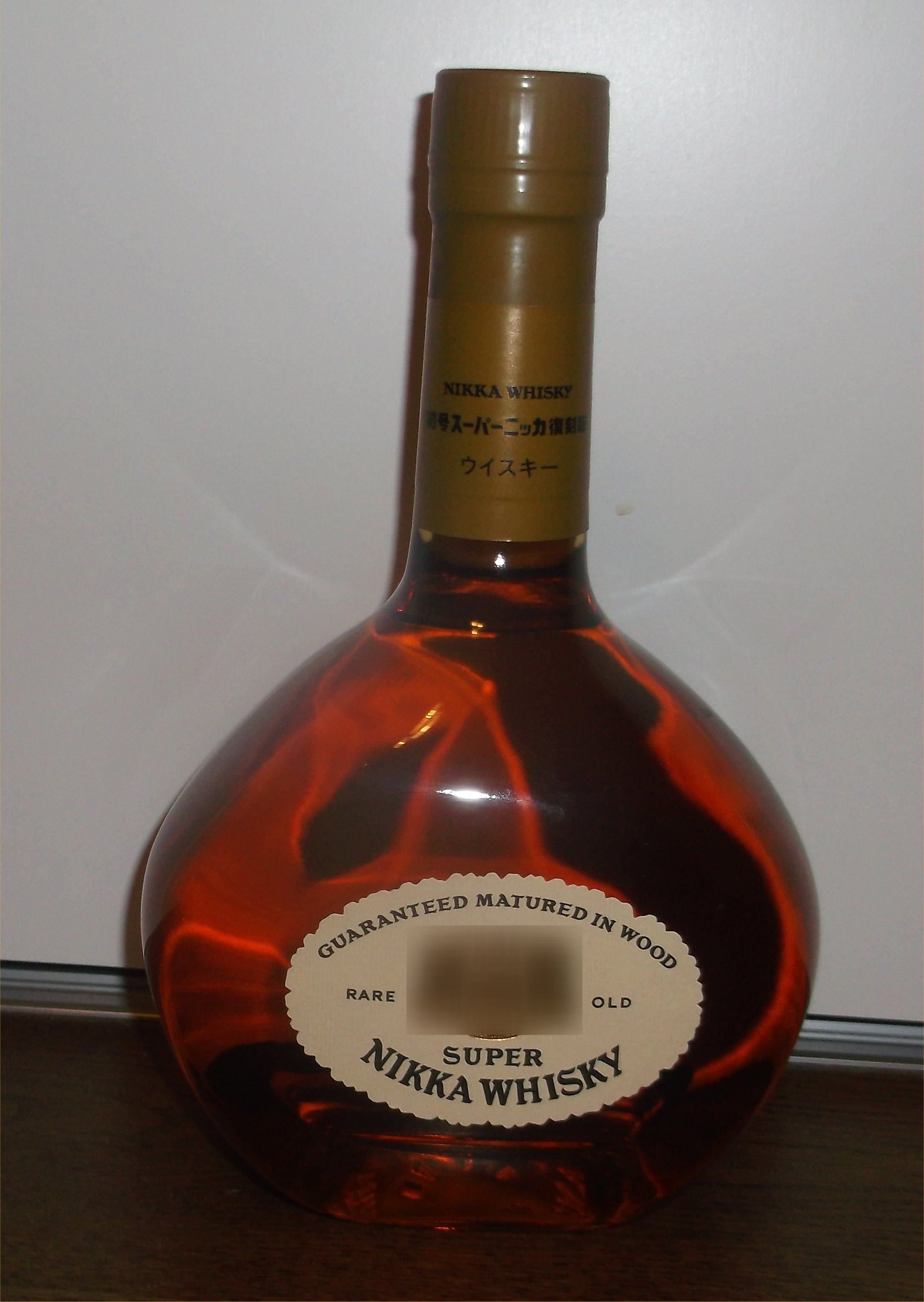 A photo of "Super Nikka revival version"(2015)(a whisky in Japan.)